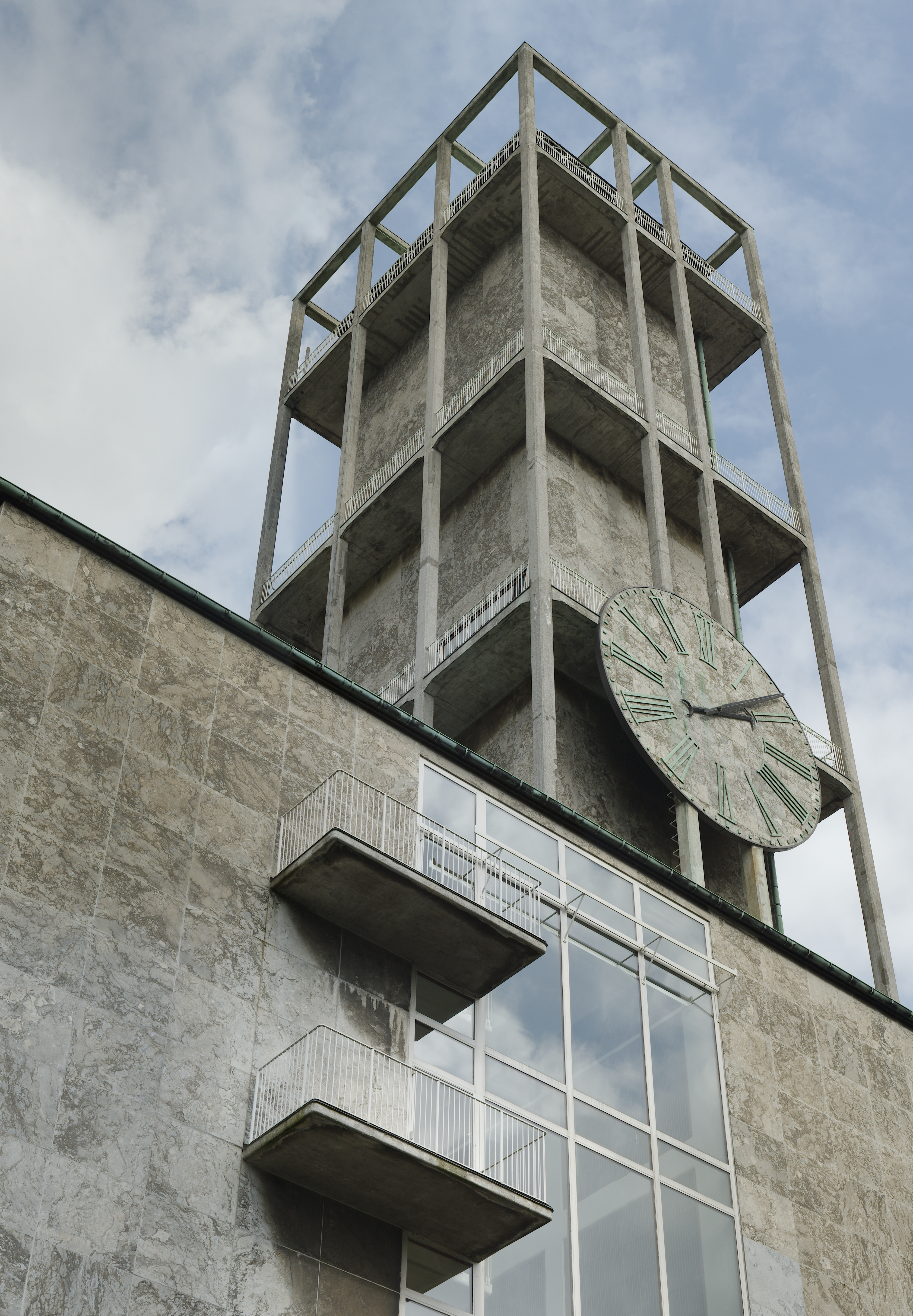 Aarhus City Hall (the tower)